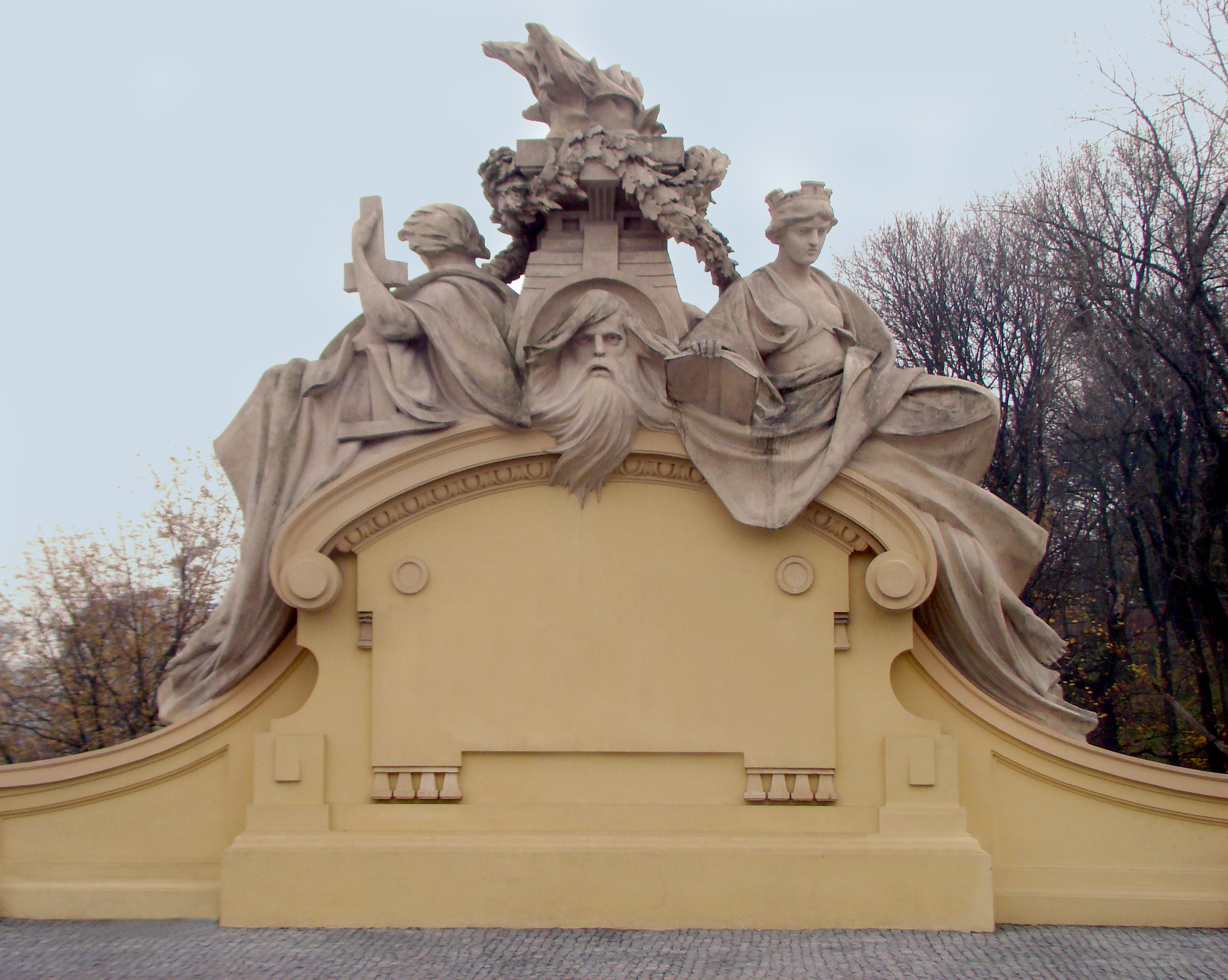 Markiewicz downward slope, sculptural adornment